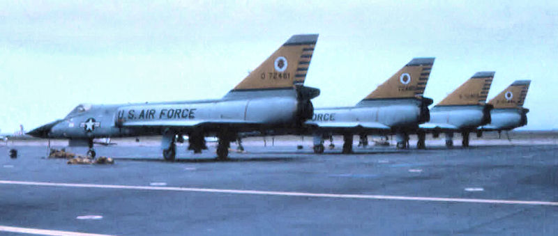 456th Fighter-Interceptor Squadron, 3 F-106s on the flight line probably at Castle AFB